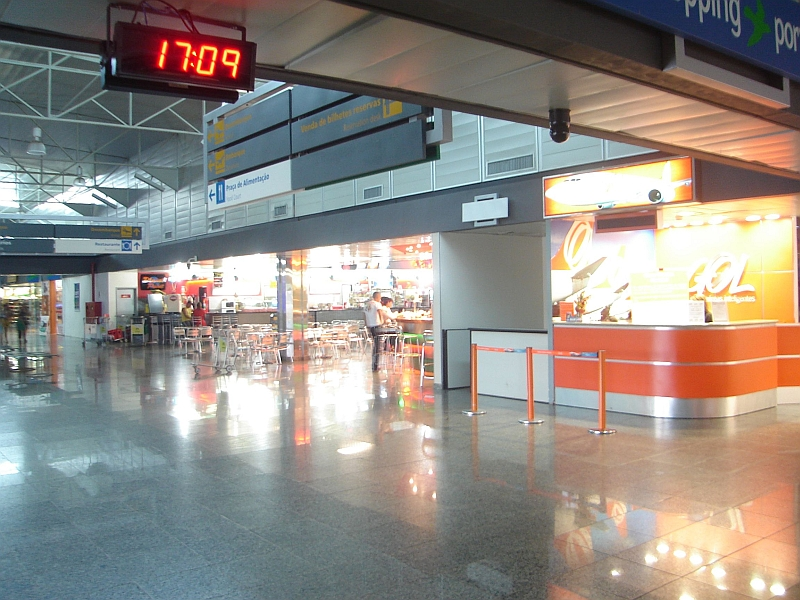 Inside view of Porto Velho's International Airport, Rondônia state, Brazil.